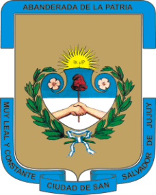 Coat of arms of San Salvador de Jujuy in Jujuy Province, Argentina